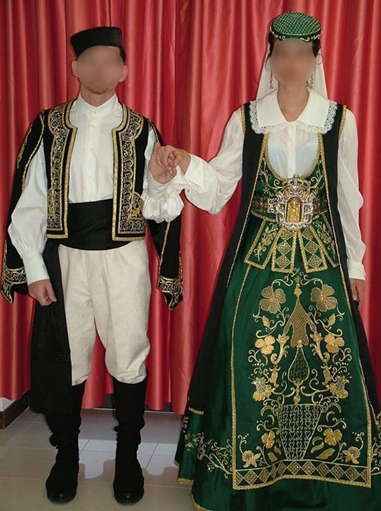 Neo Albanian Arbëresh costume from Mezzojuso on model of the costume of Piana degli Albanesi, Palermo, Sicily. Jewels and Brezi from the goldsmiths of Piana degli Albanesi.